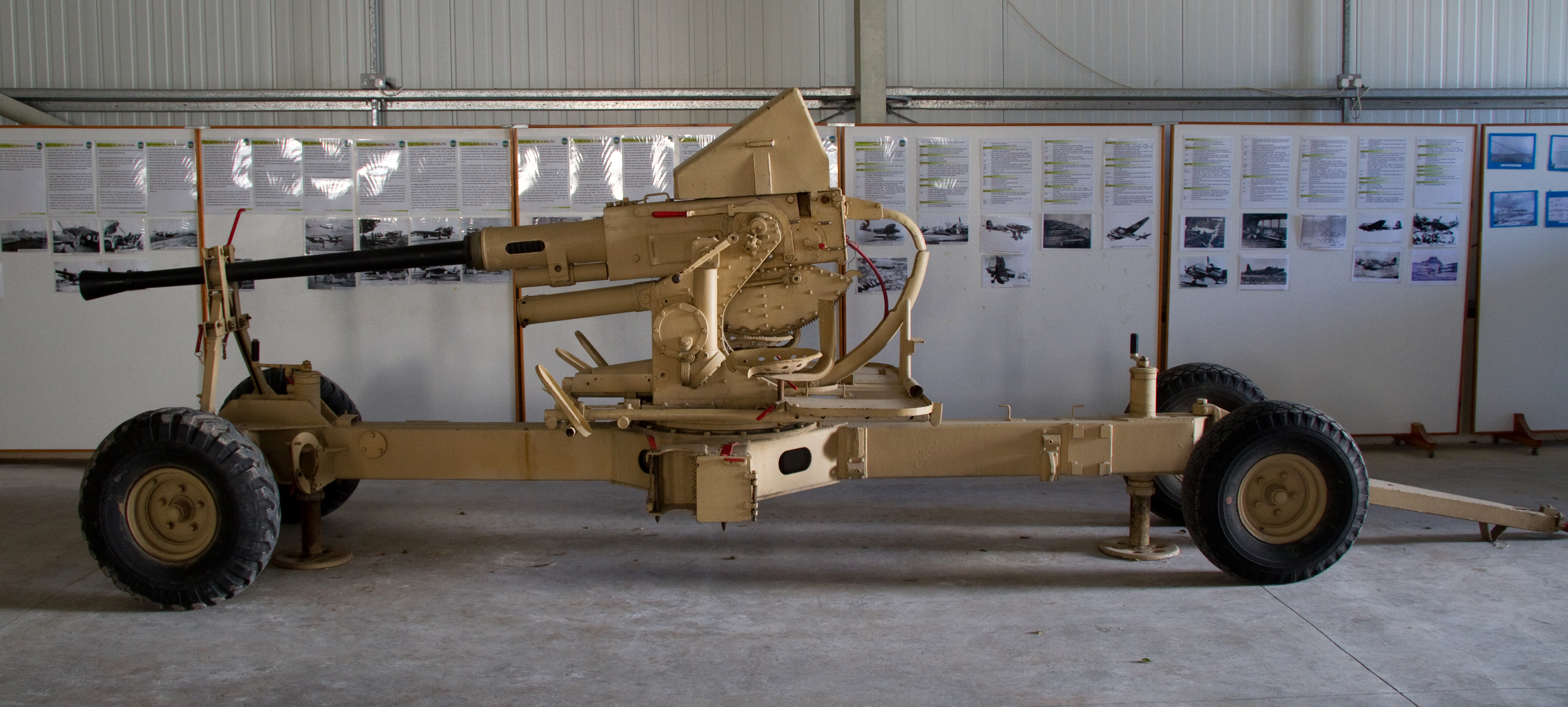 Photograph of 40-mm Bofors anti-aircraft gun on trailer, at Malta Aviation Museum.